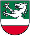 Coat of arms of Enns, Upper Austria